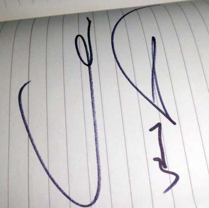 This is Louis Fan's signature.